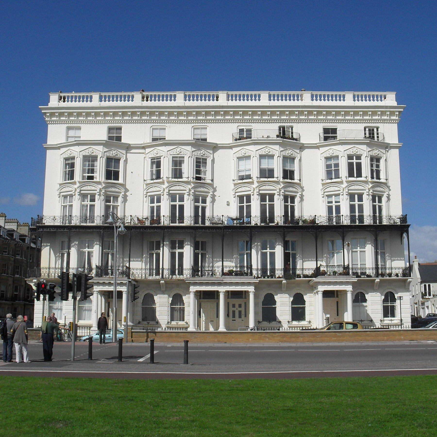 Adelaide Mansions, Kingsway, Hove, City of Brighton and Hove, East Sussex. A terrace of four sea-facing houses next to Adelaide Crescent, built in 1873. Listed at Grade II by English Heritage (IoE Code 365557)